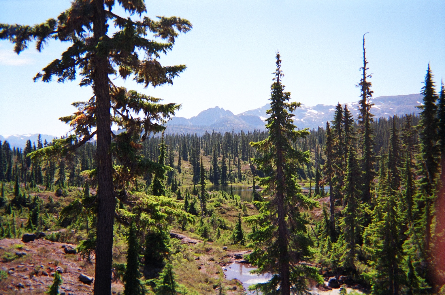 Forbidden Plateau, Strathcona Provincial Park, British Columbia, Canada